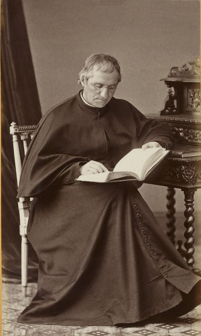 Father Armand David (1826-1900), french vincentian missionnary, explorer of the chinese Far-East, zoologist and botanist for the Muséum d'Histoire Naturelle of Paris.